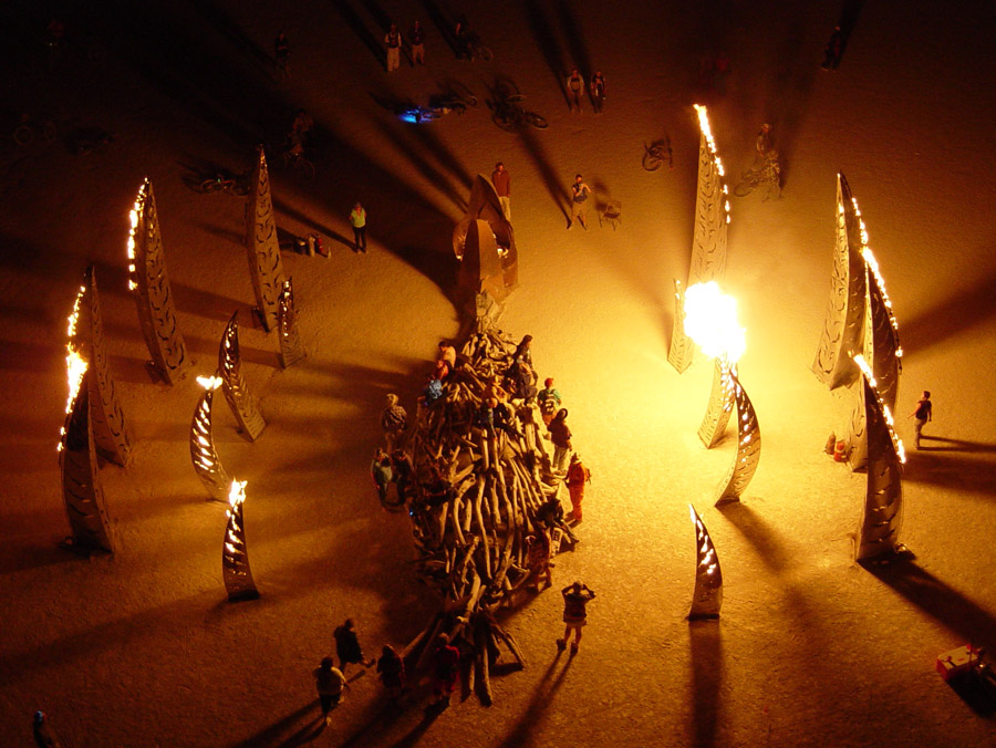 The Angel of the Apocalypse by the Flaming Lotus Girls at Burning Man 2005